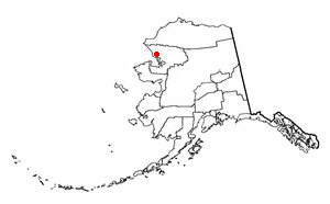 Adapted from Wikipedia's AK borough maps by Seth Ilys.